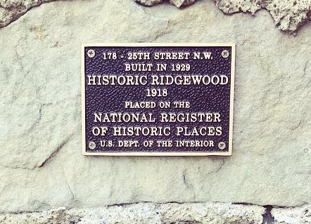 Marker on residence located in the Ridgewood Historic District in Canton, Ohio